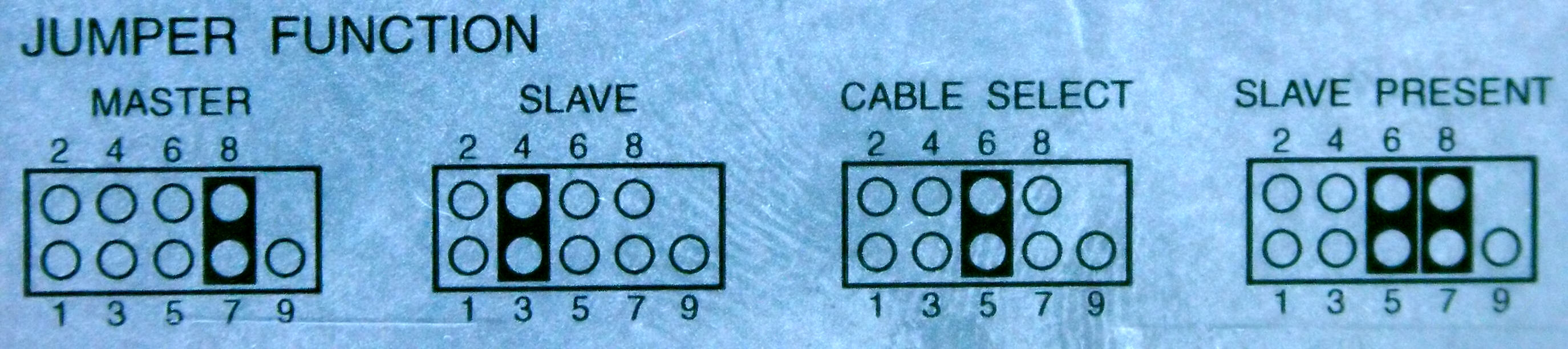 Label of HDD